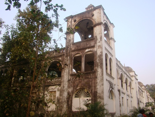 Brundavan Palace